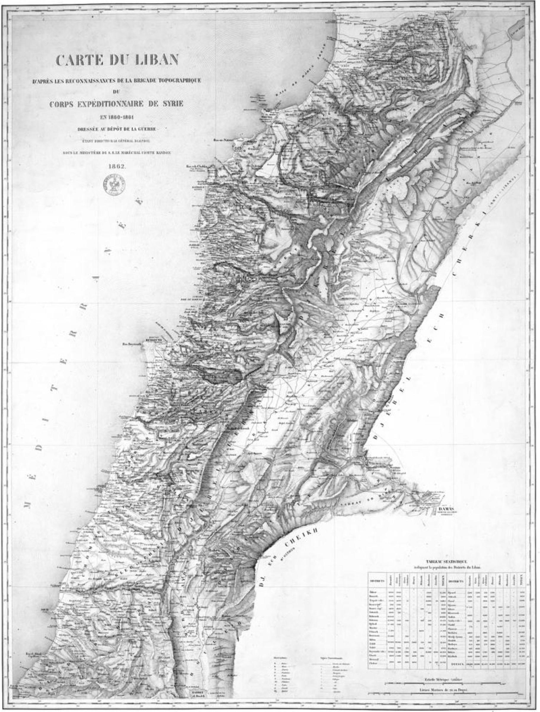 Carte du Liban d'apres les reconnaissances de la brigade topographique du corps expeditionnaire de Syrie en 1860-1861 dressee au depot de la guerre. Map of Lebanon as per the survey of the topographic brigade of the French Expeditionary Corps in Syria. This map described the territory of Lebanon as it stood at 1860, the date of the map, which was prior to the 1919 Paris Peace Conference.